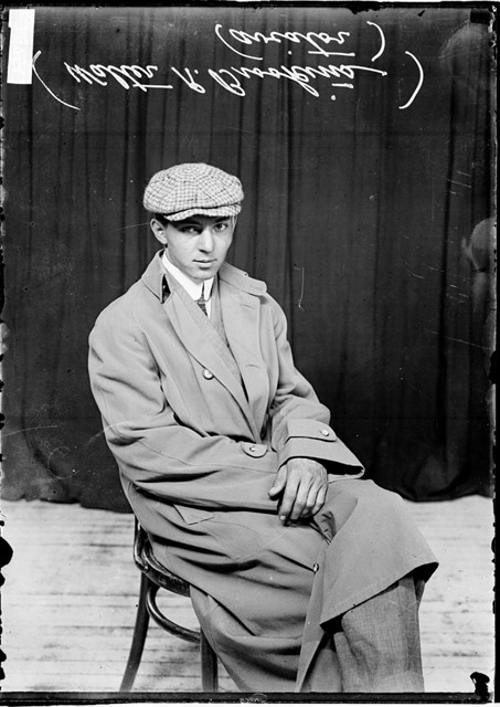 Walter Richard Brookins Original source: DN-0008764, Chicago Daily News negatives collection, Chicago History Museum. Source: Library of Congress